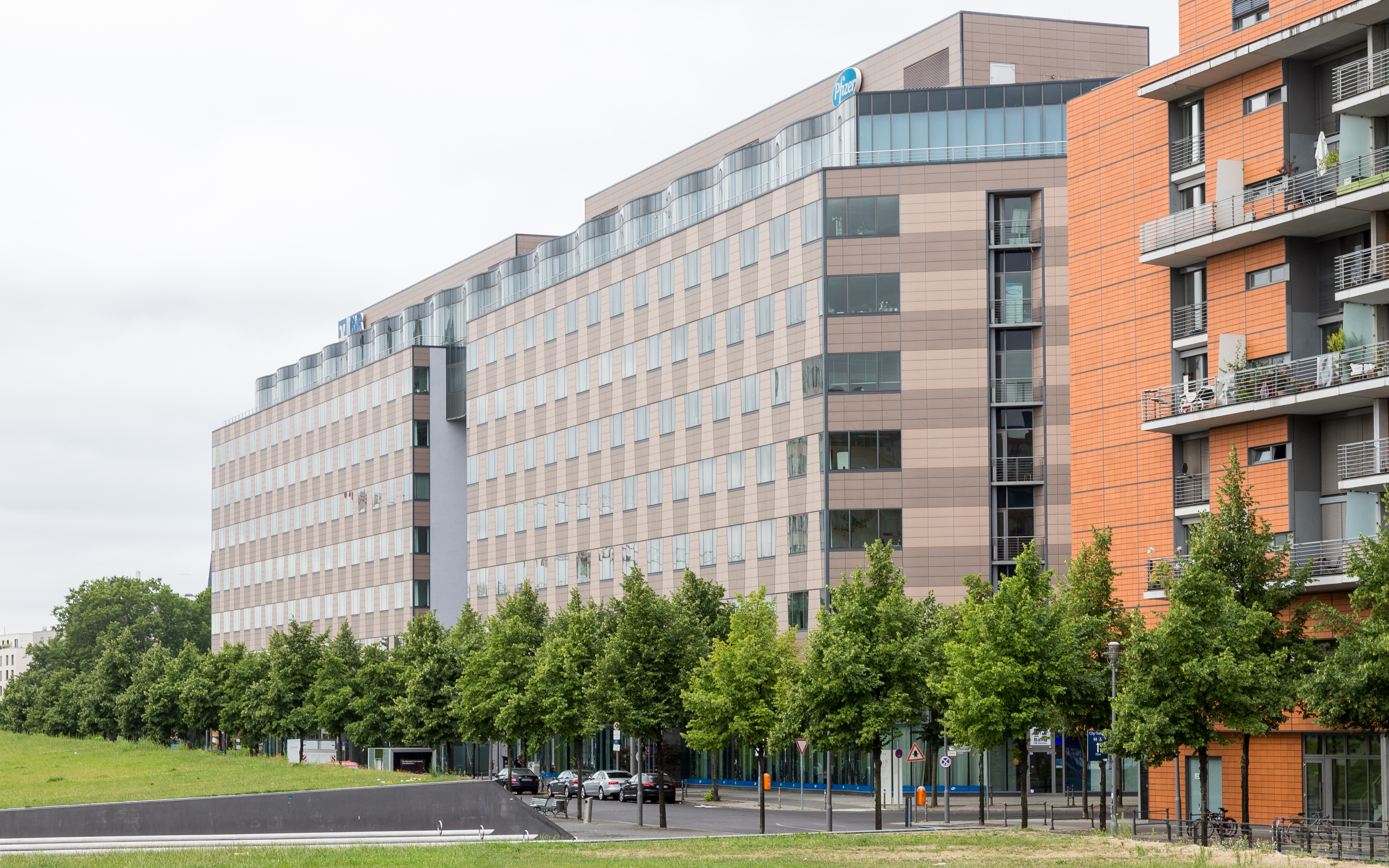 Office building of Agata Isozaki at Linkestraße, near Potsdamer Platz in Berlin. Built in 1997 for Berliner Volksbank.